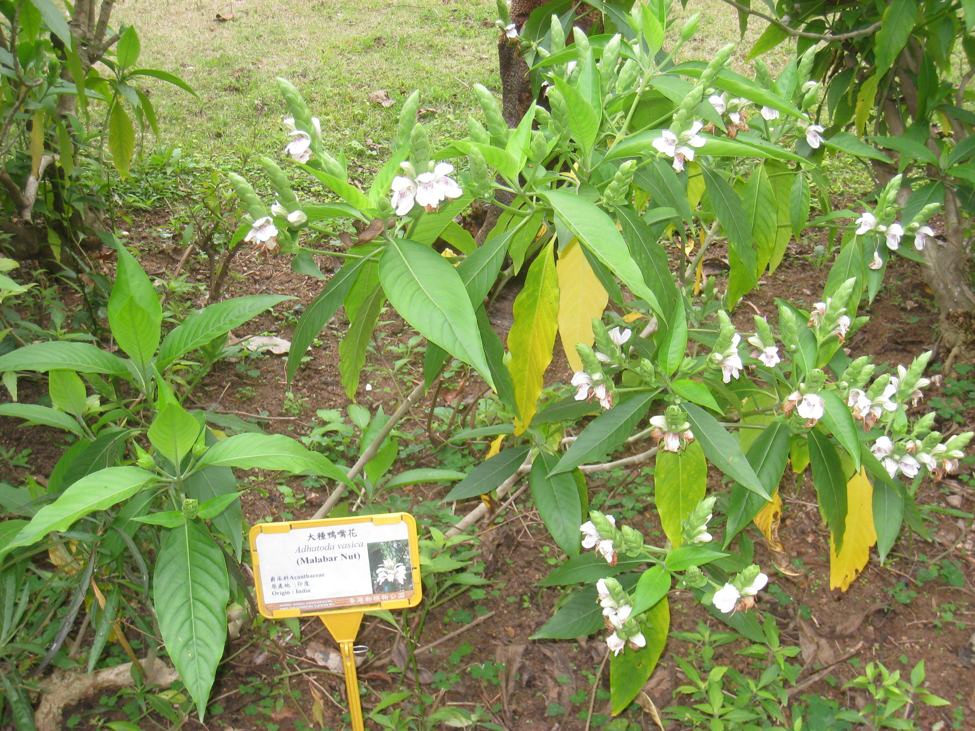 Justicia adhatoda. Plant specimen in the Hong Kong Zoological and Botanical Gardens, Hong Kong.